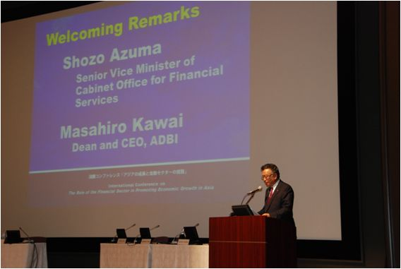 Shōzō Azuma, Senior Vice-Minister of Cabinet Office, attended the International Conference on the Role of the Financial Sector in Promoting Economic Growth in Asia at the Central Government Building No.7 in Chiyoda Ward, Tōkyō Metropolis on February 3, 2010. (For terms of use, see 金融庁ウェブサイト利用ルール： 金融庁.)